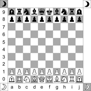 Omega chess board layout. Redrawn after image at OMEGA CHESS - Rules using public domain images, MS Paint and Ulead PhotoImpact.